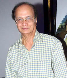 Dilip Prabhavalkar at the promotion of Marathi film 'Naagrik'